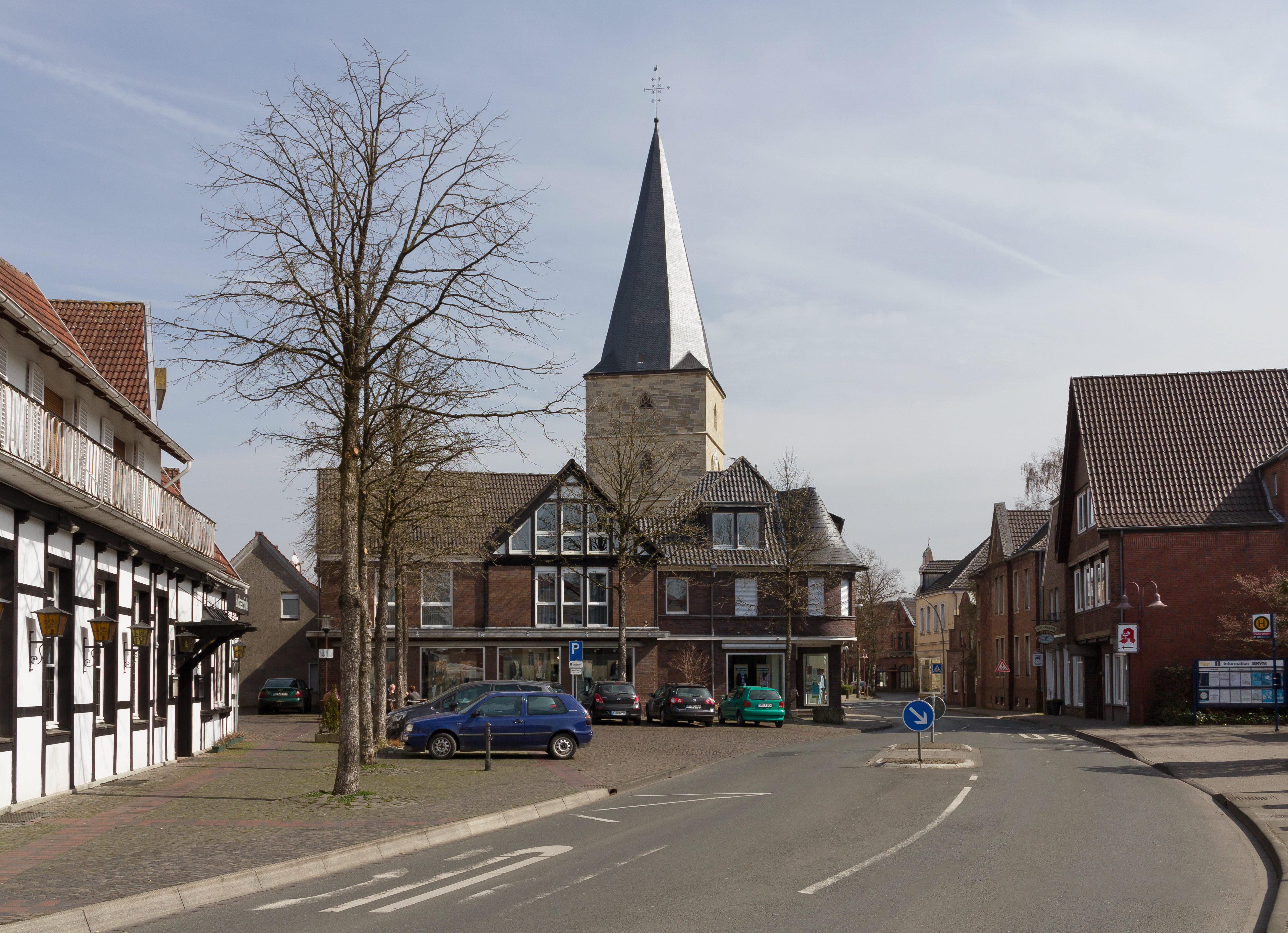 Laer, church (die katholische Pfarrkirche Sankt Bartholomäus) in the street